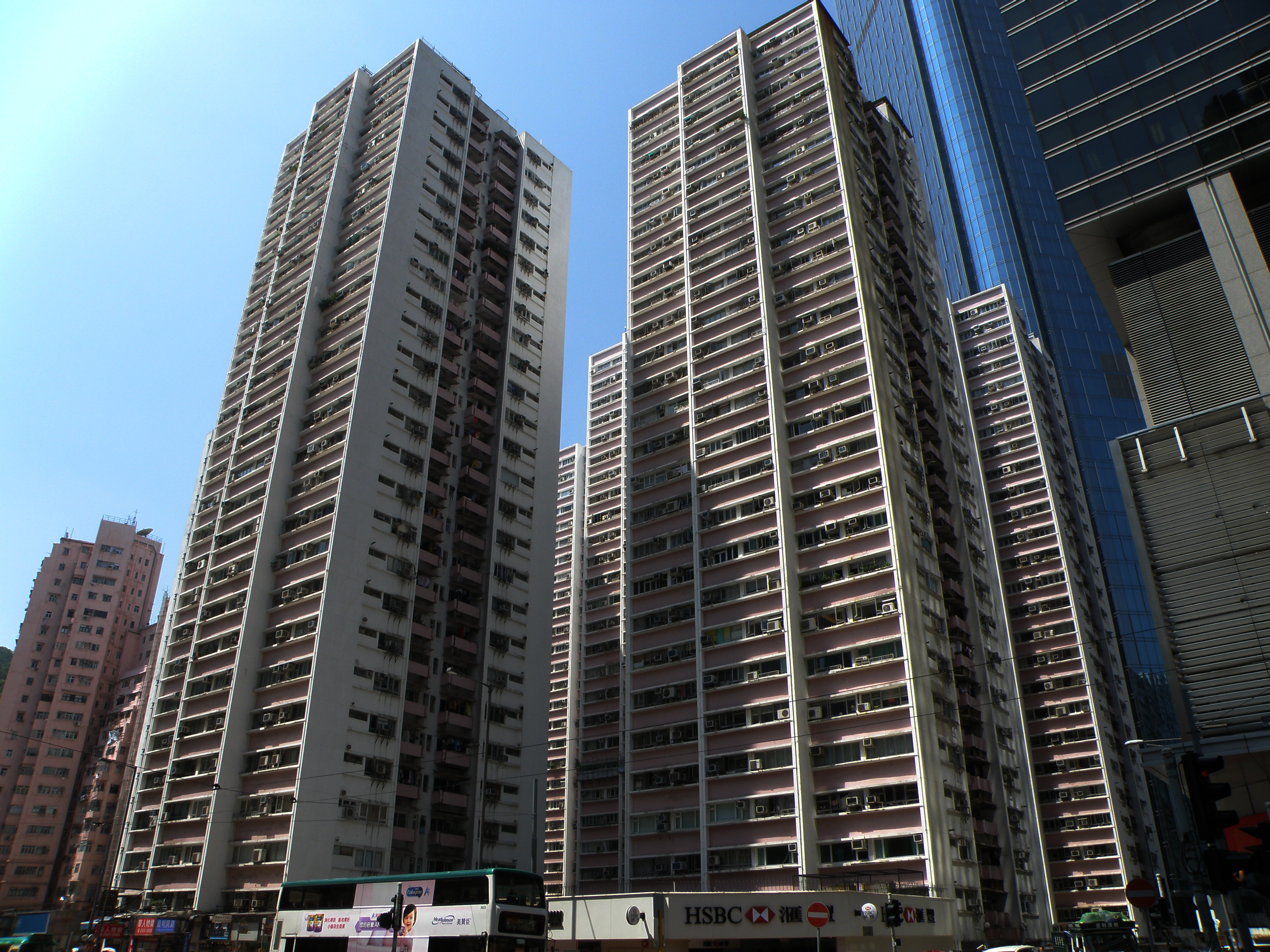 Westlands Gardens in Tai Koo, Hong Kong.